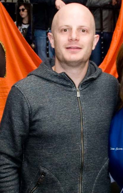 Facundo Gomez at a Halloween event at ITESM CCM